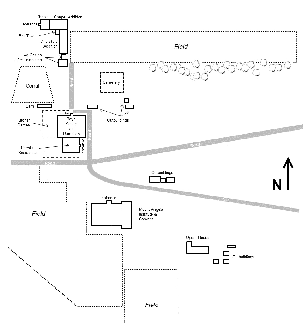 Layout (not to scale) of St. Peter's Mission near Cascade, Montana, in the United States. This map depicts the mission as it existed about 1907. The mission was established at its final location on Birch Creek by priests belonging to the Society of Jesus (Jesuits) in 1881. The first building constructed was the chapel, which was expanded later that year. One-room log cabin residences were built adjacent to the expansion. In 1882, these log cabins were moved to make room for a one-story dormitory. Ursuline nuns joined the mission in 1884, and in 1887 the Jesuits built a four-story stone boys' school and dormitory and a three-story wooden priests' residence. A donation from a wealthy benefactor allowed the Ursulines to begin construction on a four-story stone girls' school and convent, which was occupied in 1892. The Ursulines constructed an L-shaped, two-story, wooden "opera house" in 1896. By 1907, the mission also included a barn, corral, laundry, and workers' housing. The boys' school/dormitory, priests' residence, one-story addition to the chapel, and several outbuildings burned to the ground in January 1908. The Ursuline convent/girls' school burned to the ground in November 1918, after which the mission was abandoned. St. Peter's Mission hosted a U.S. post office from 1885 to 1938.